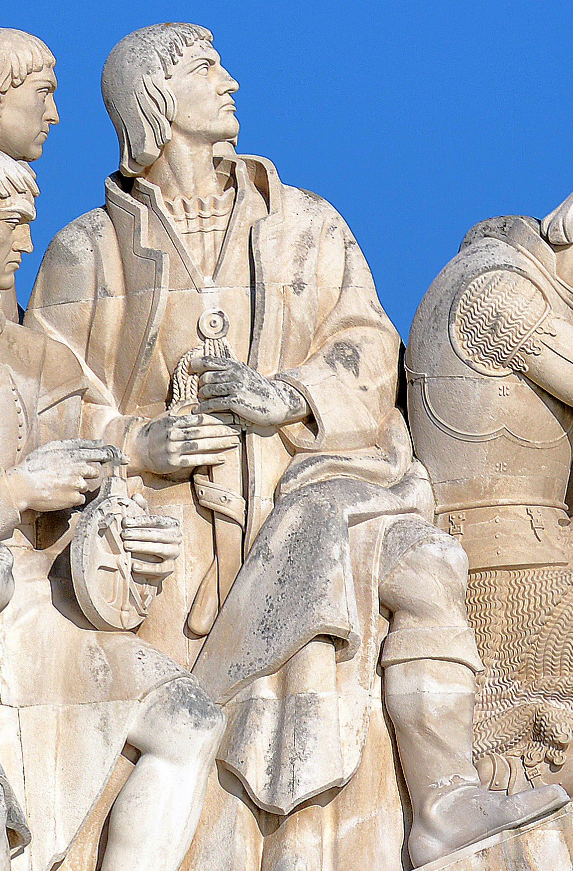 Effigy of João Gonçalves Zarco (c. 1390-1471), Portuguese navigator and settler of Madeira Island, in the Padrão dos Descobrimentos (Monument to the Discoveries), in Lisbon, Portugal.